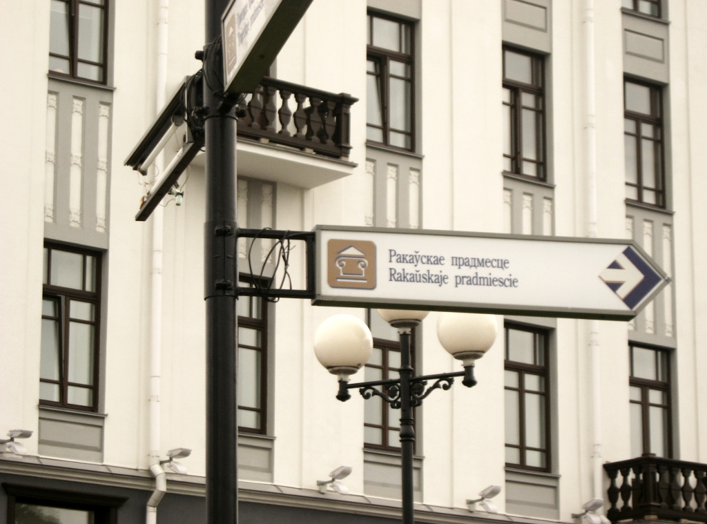 A sign in Minsk with Belarusian Latin alphabet used.